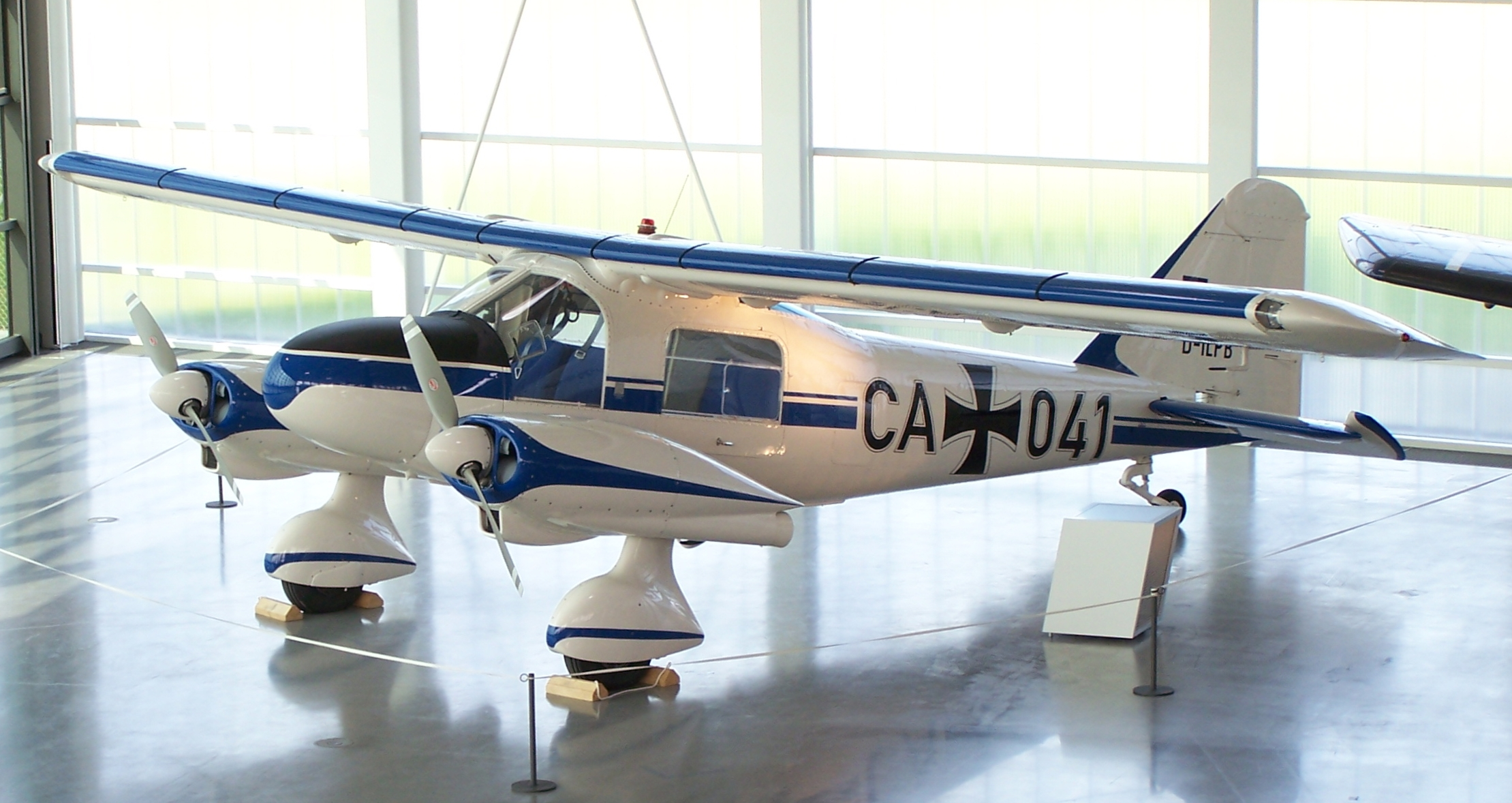 Dornier Do 28 A1 at Dornier Museum